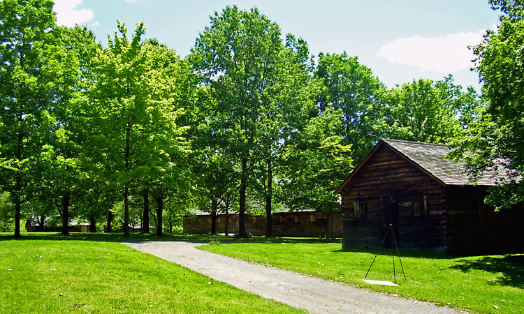 Photographed by Daniel Case 2006-05-22